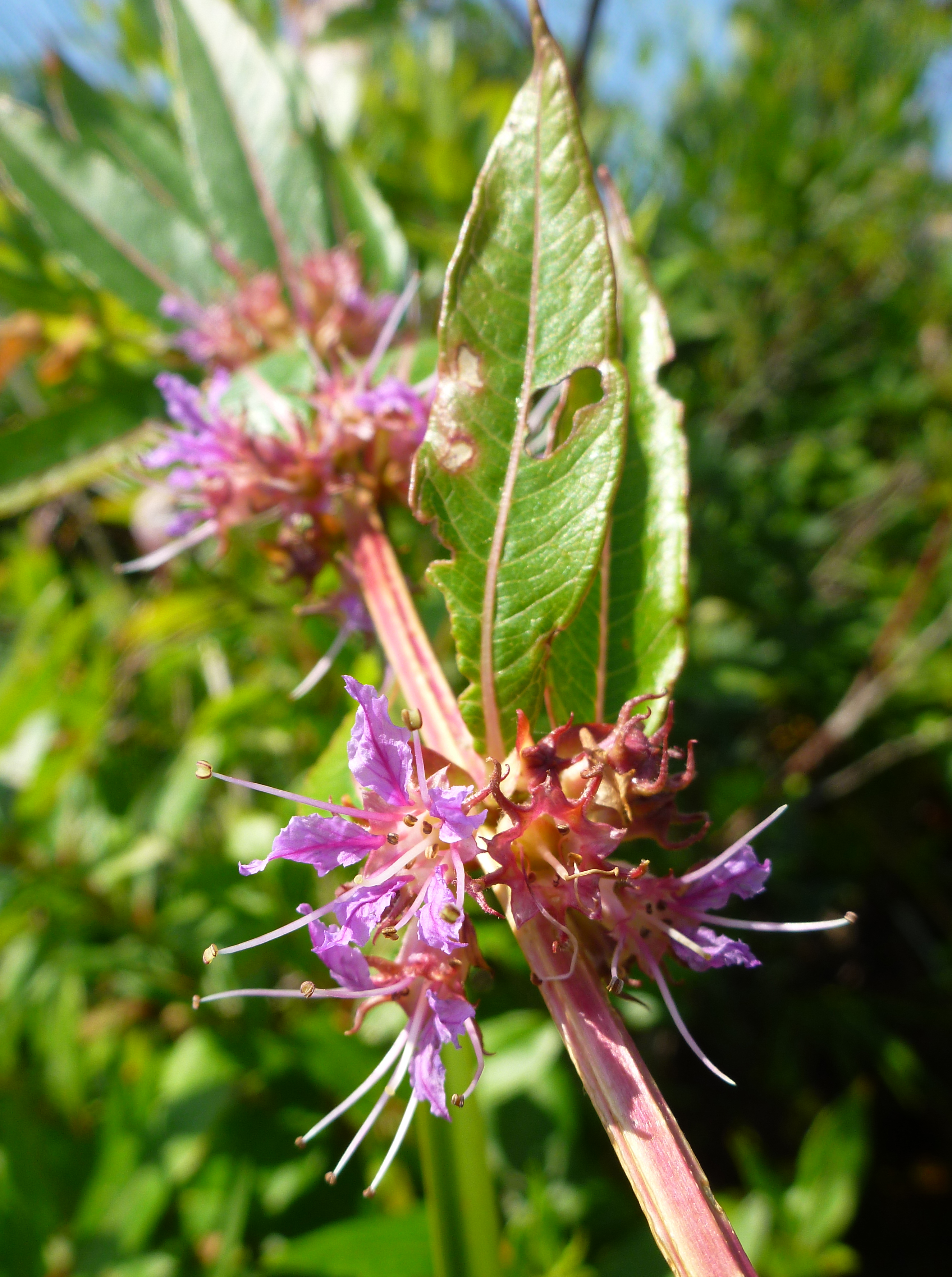 Decodon verticillatus flower, taken in Oswego County, New York